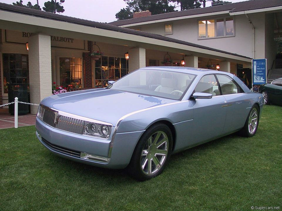 A front 3/4 view of the 2002 Lincoln Continental concept car.